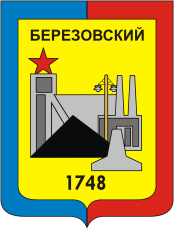 Berezovsky (Sverdlovsk oblast), coat of arms (1972)